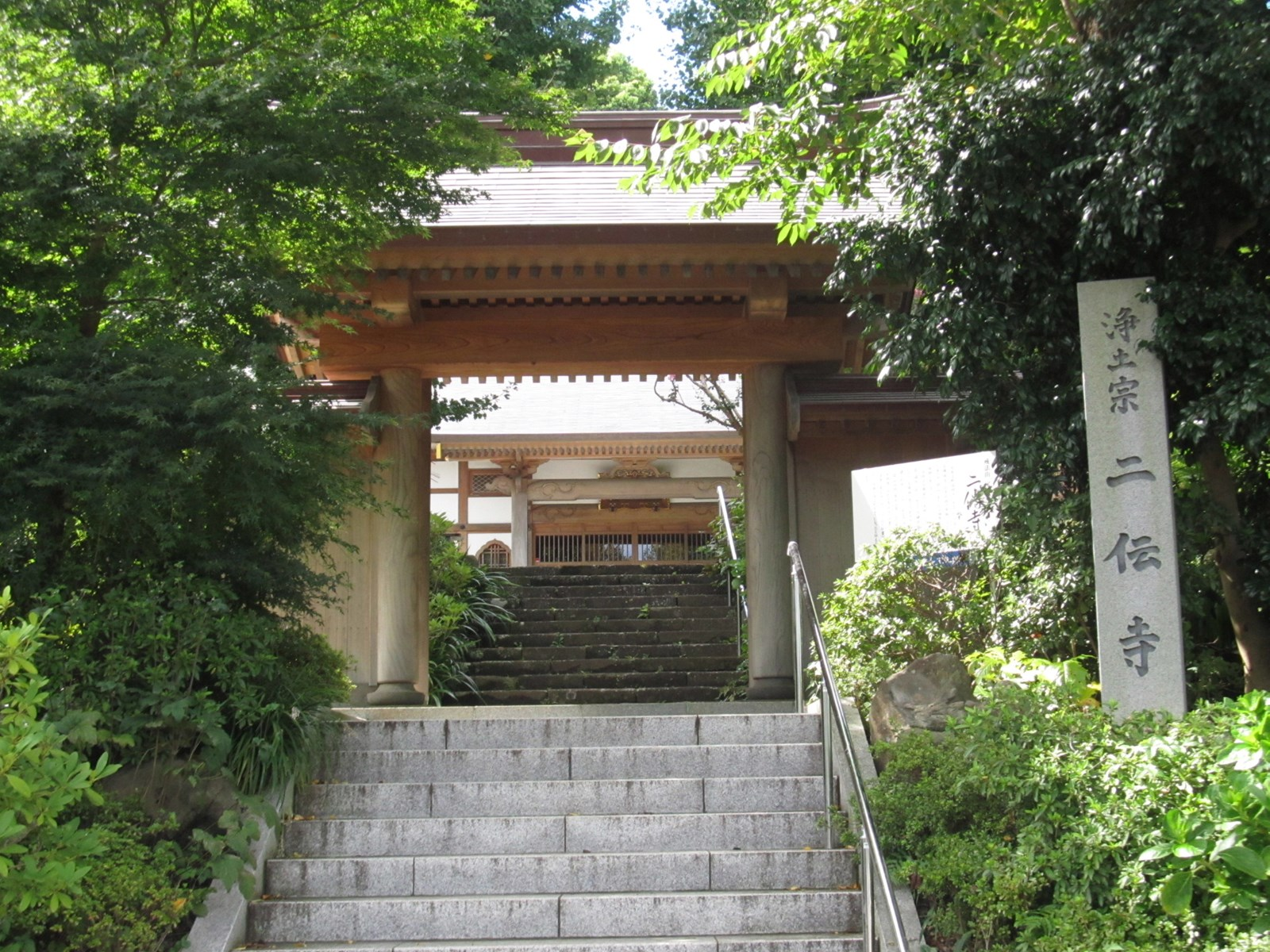 Sanmon at Niden-ji in Fujisawa City, Kanagawa Prefecture, Japan